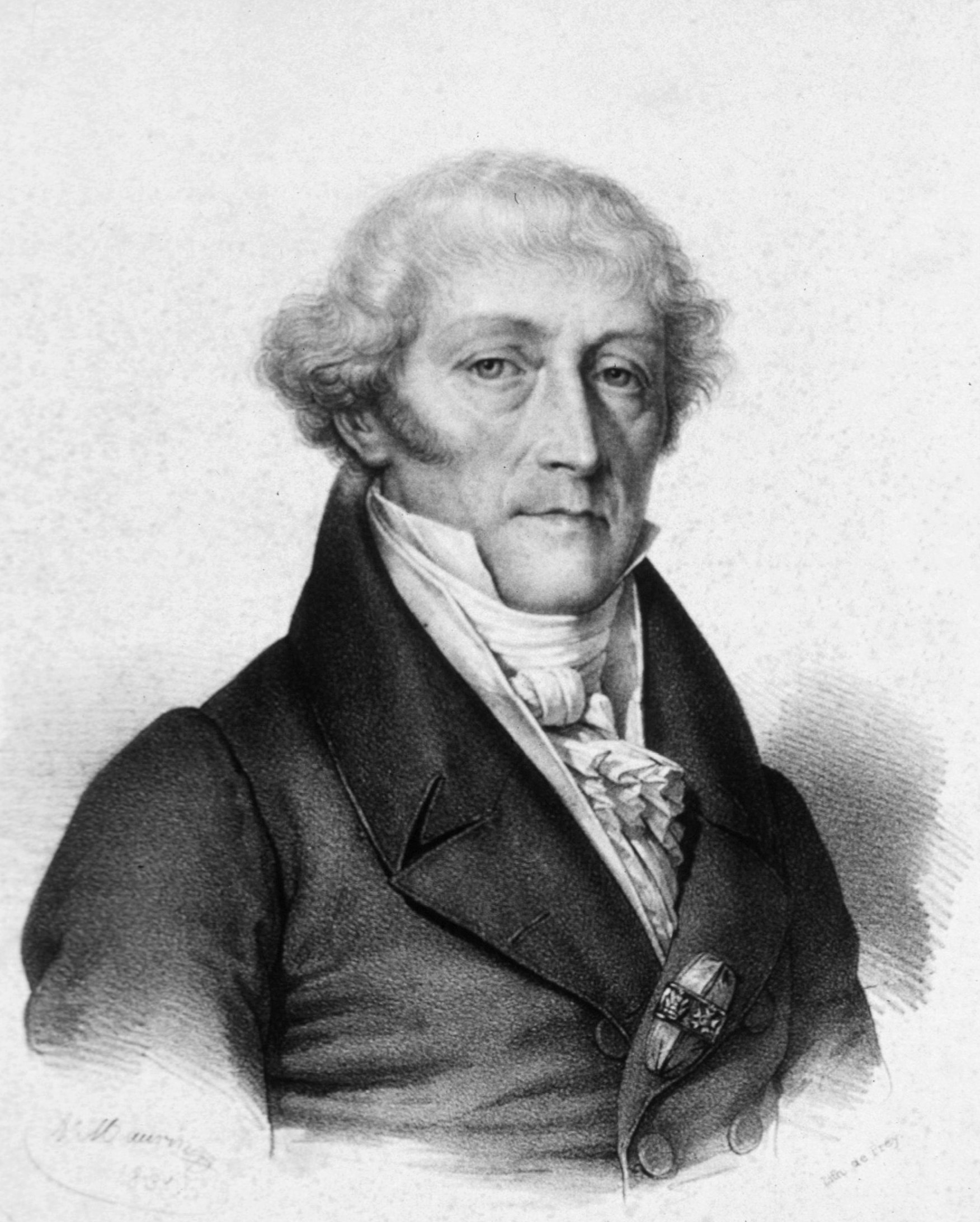 Antonio Scarpa (May 9, 1752 – October 31, 1832)